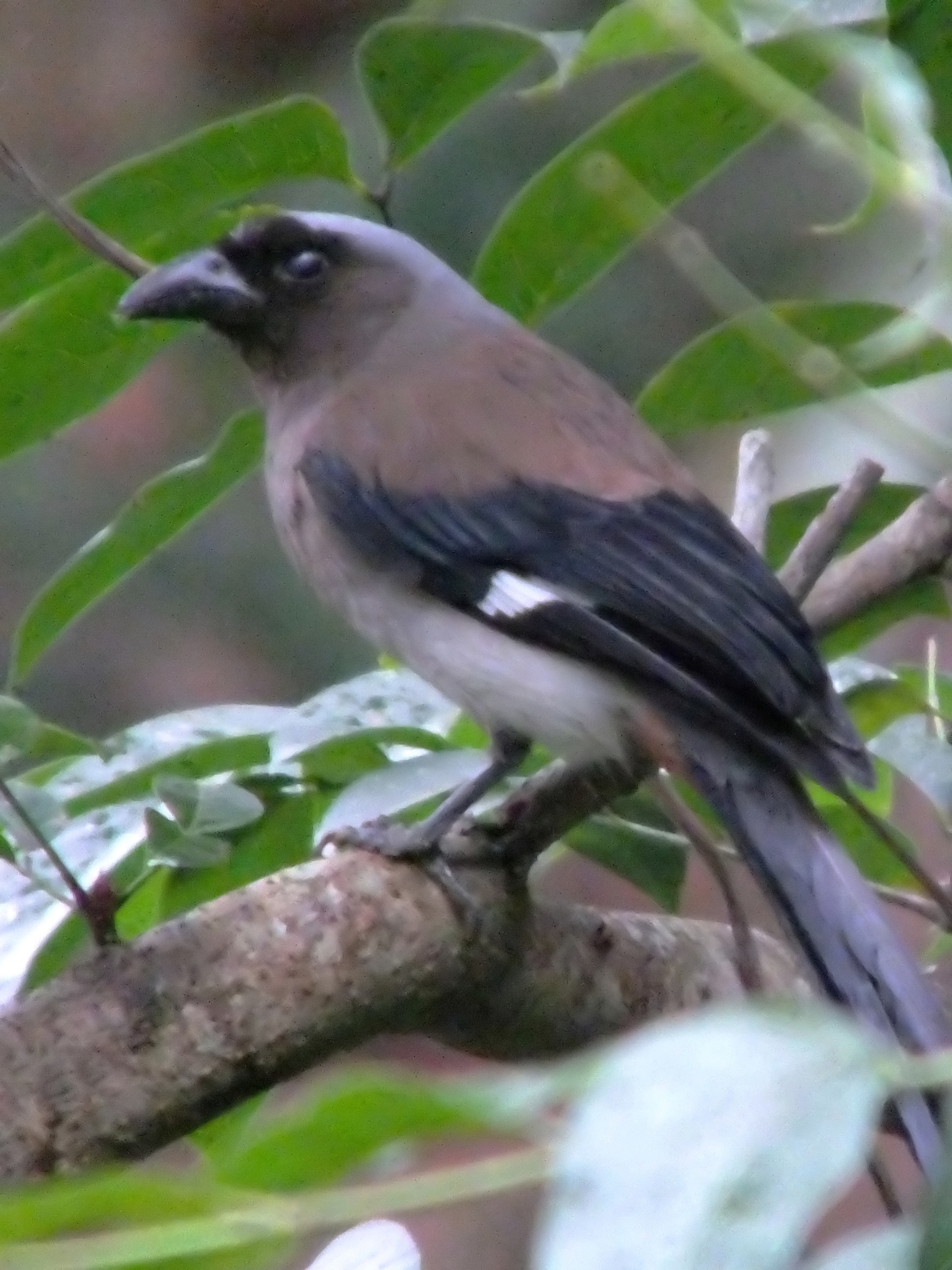 Saw at a forest of Taiwan.